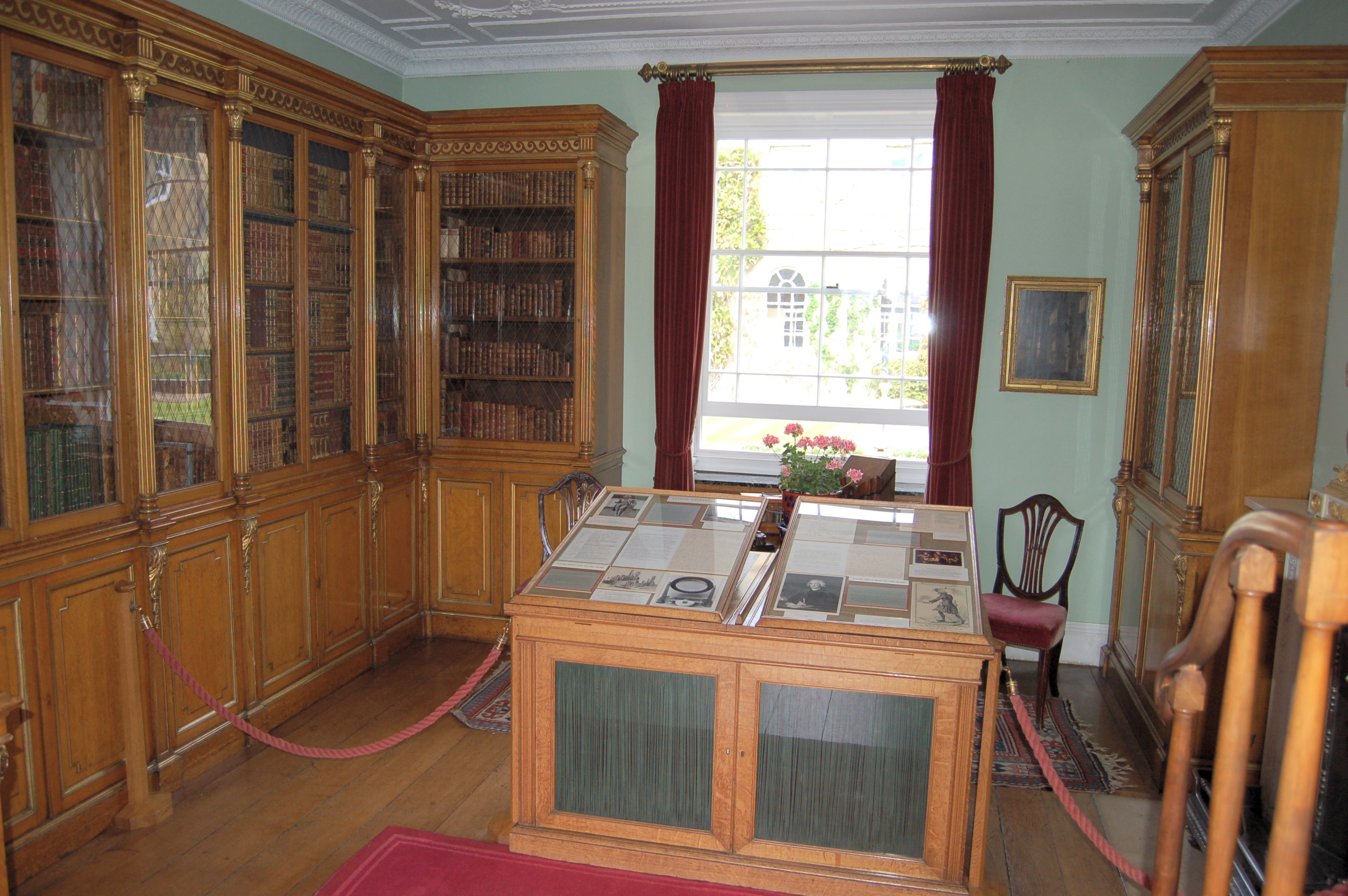 Photograph of the laboratory at Bowood House. Joseph Priestly discovered oxygen in this room on 1 August 1774. Dr Jan Ingen Housz, who discovered photosynthesis, worked in this laboratory during the 1790s, and died here in 1799.